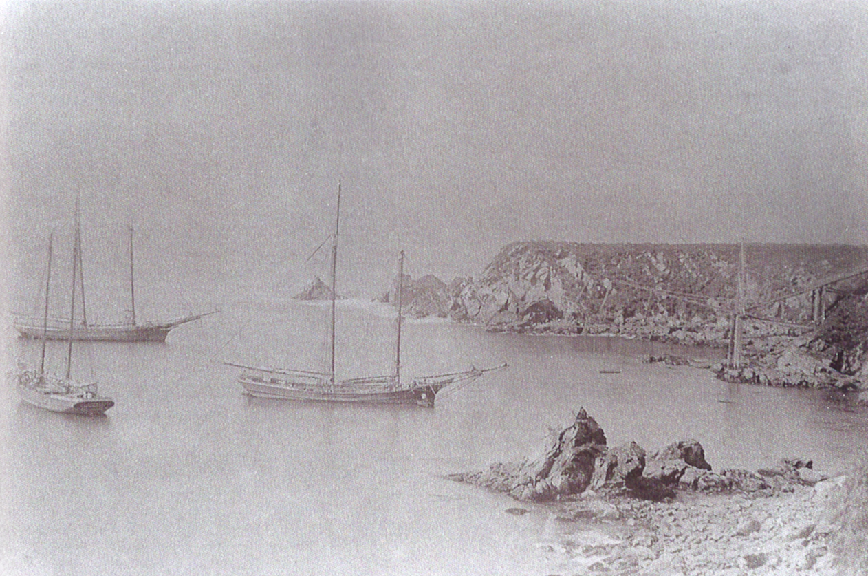 Fort Ross Cove before 1900. Note the loading chute at the far right.